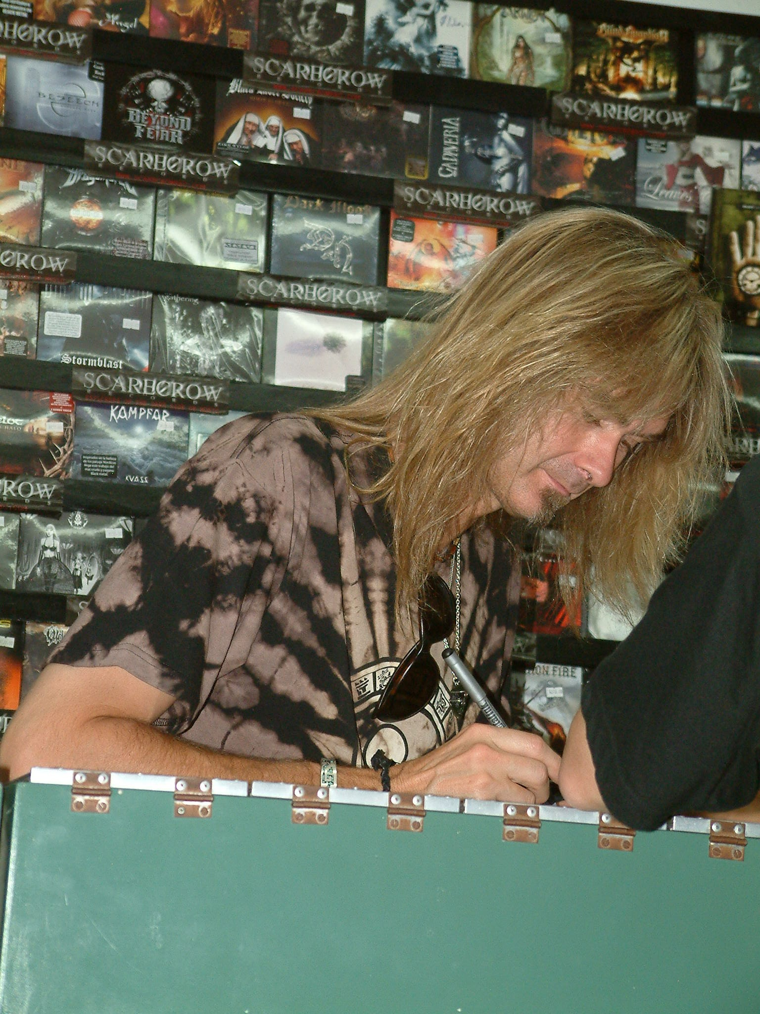 Arjen Anthony Lucassen is a composer and musician from the Netherlands.Arjen